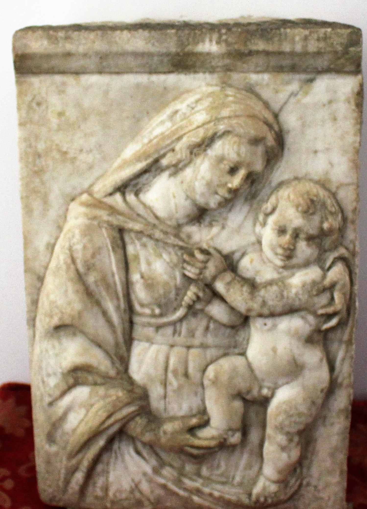 Template:Eng